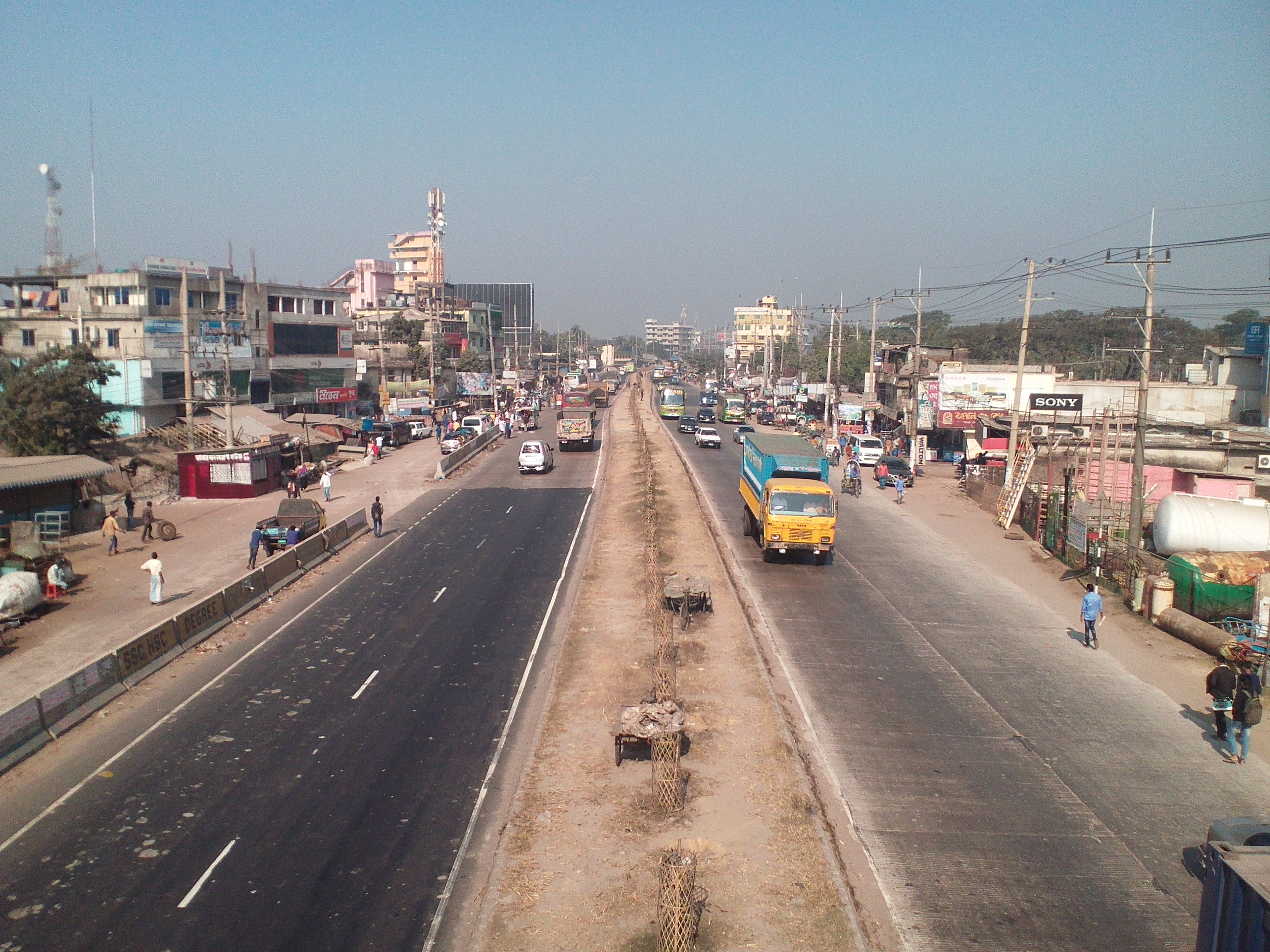 This a image of Vatiary area. And the N1 road (Dhaka-Chittagong Highway) is visible in the image.